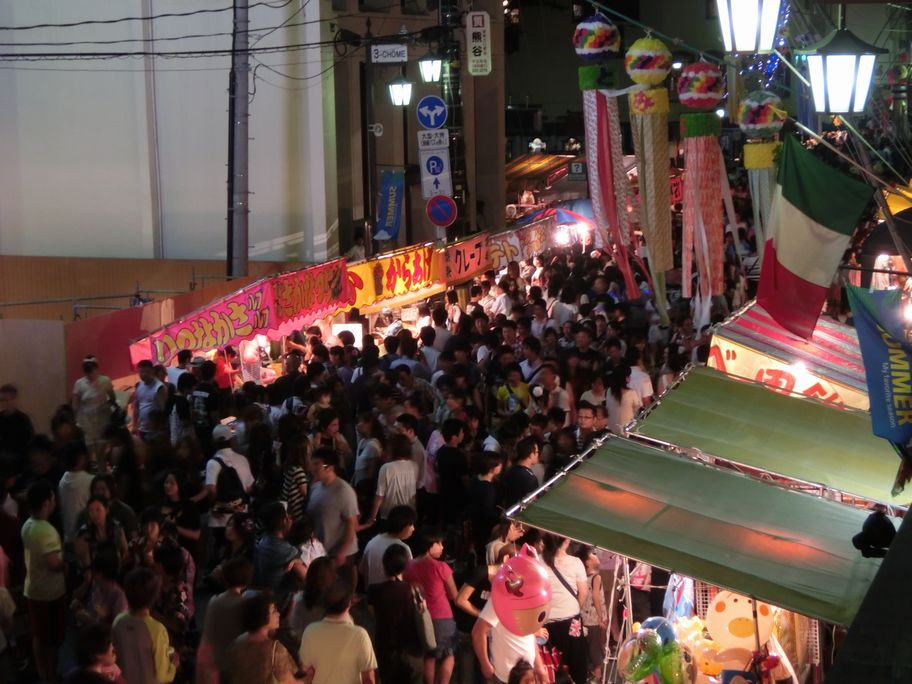 The 2012 Taira Tanabata Festival in Iwaki City, Fukushima Prefecture, Japan